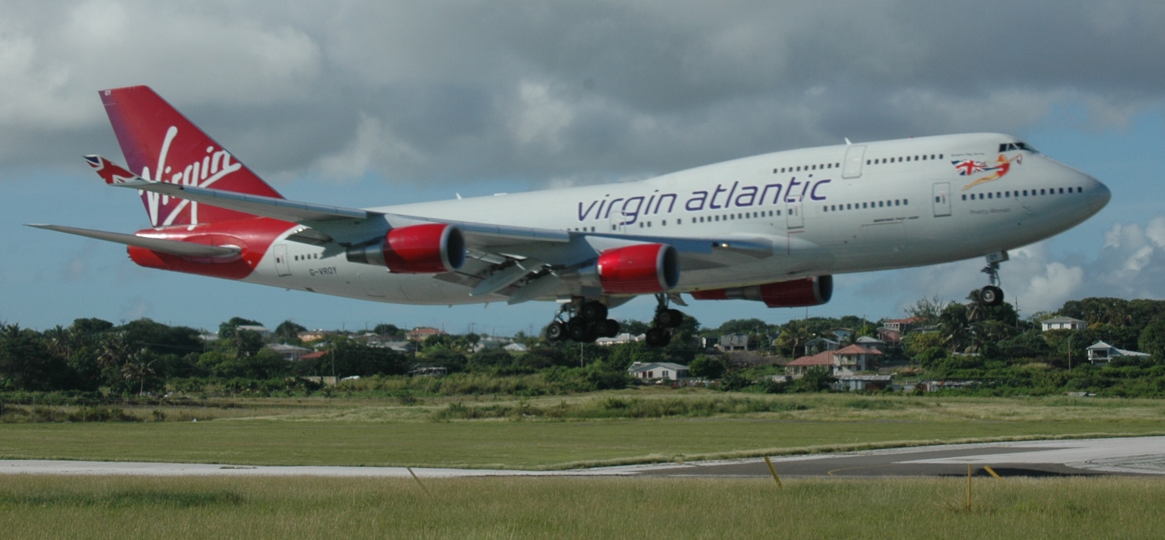 Virgin Atlantic 747-400 Landing in Barbados